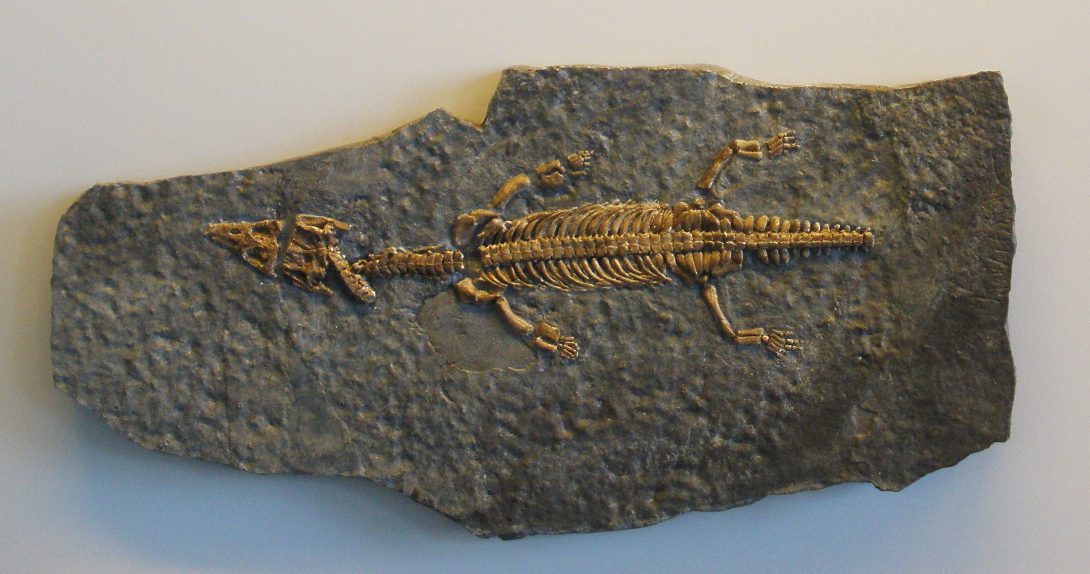 fossil lariosaurus